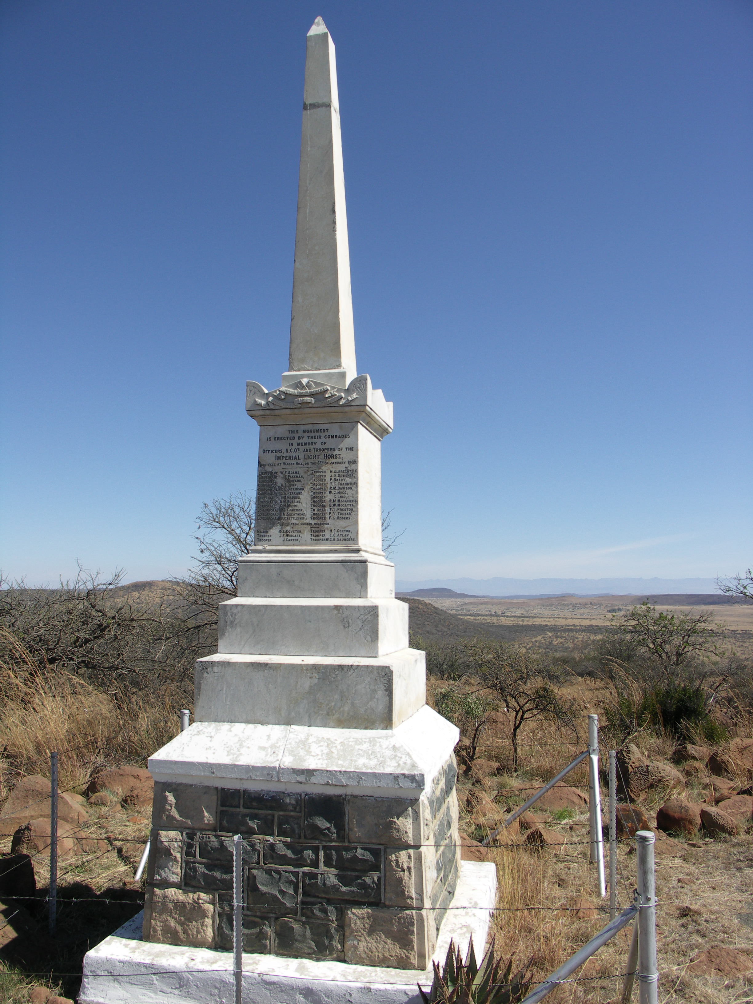 Memorial on Platrand outside Ladysmith to those members of the Imperial Light Horse that died during the Siege of Ladysmith